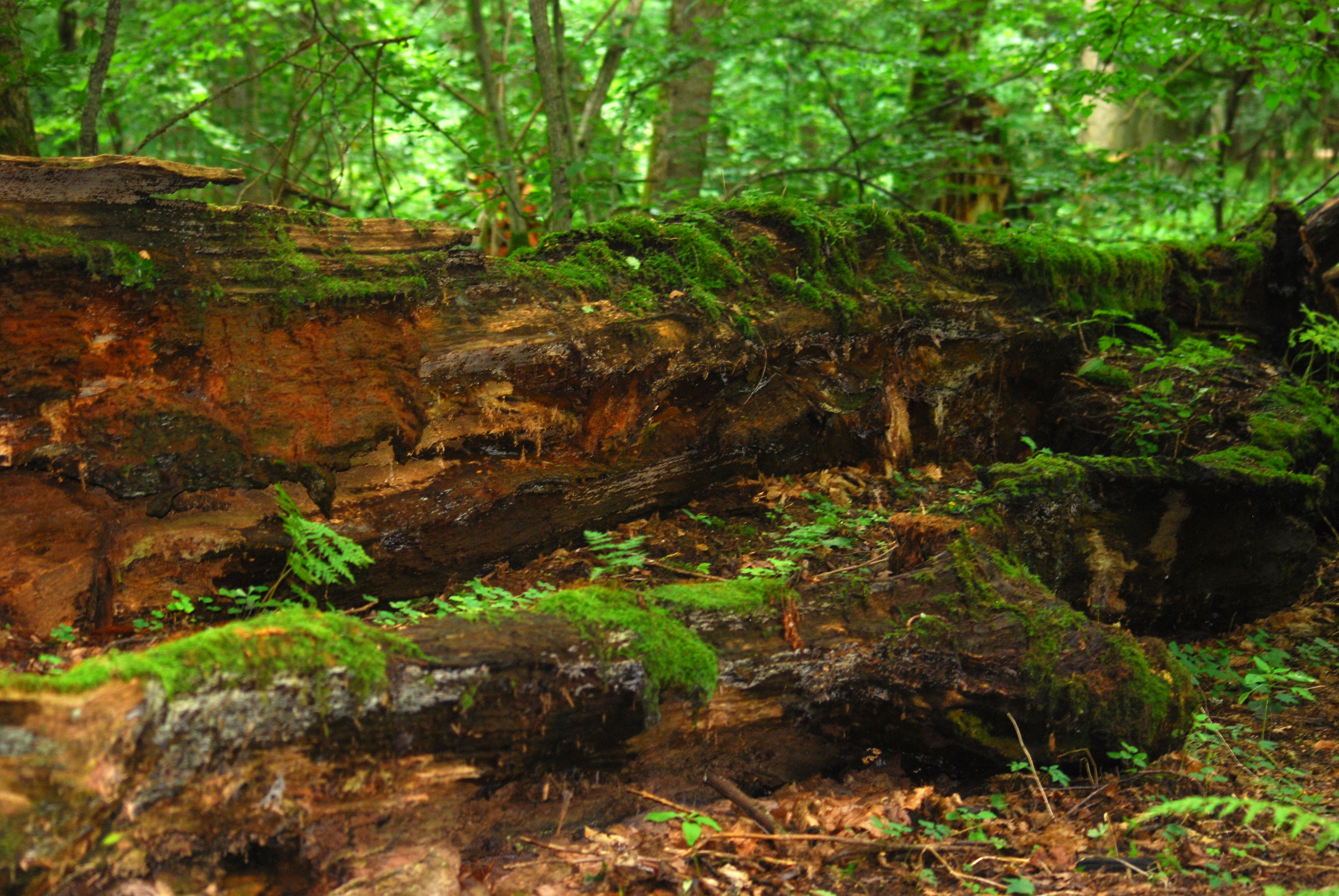 This photo from Podlaskie Voievodeship was taken during Polish Wikiexpedition 2009 set up by Wikimedia Polska Association. The making of this document was supported by Wikimedia Polska. Rezerwat ochrony scisłej Białowieskiego Parku Narodowego